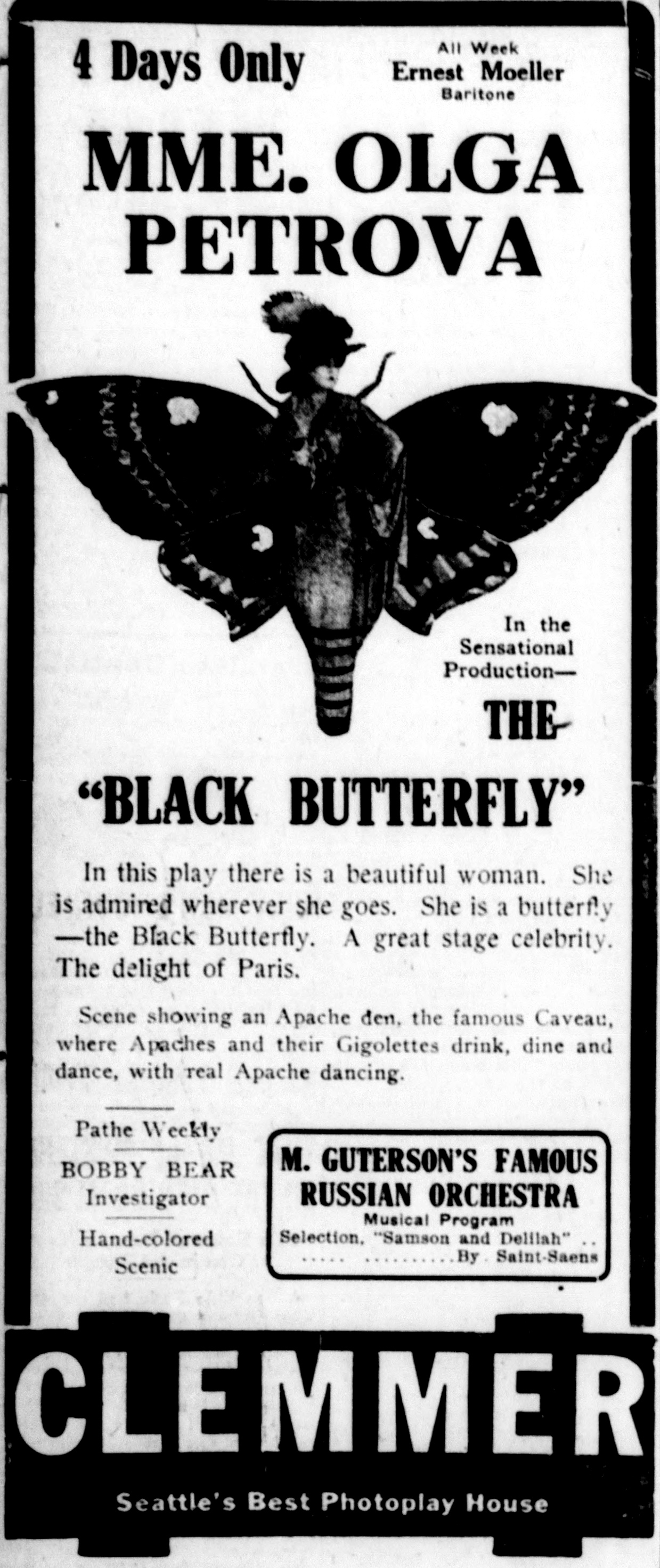 The Black Butterfly is a lost 1916 silent film drama starring Olga Petrova and released by Metro Pictures. This is a newspaper advert.